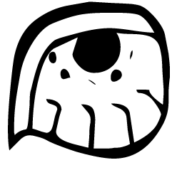 Maya:glyph:logogram:calendric:Tzolkin:Day01:Imix:codex+W:v01. Img created by CJLL Wright.